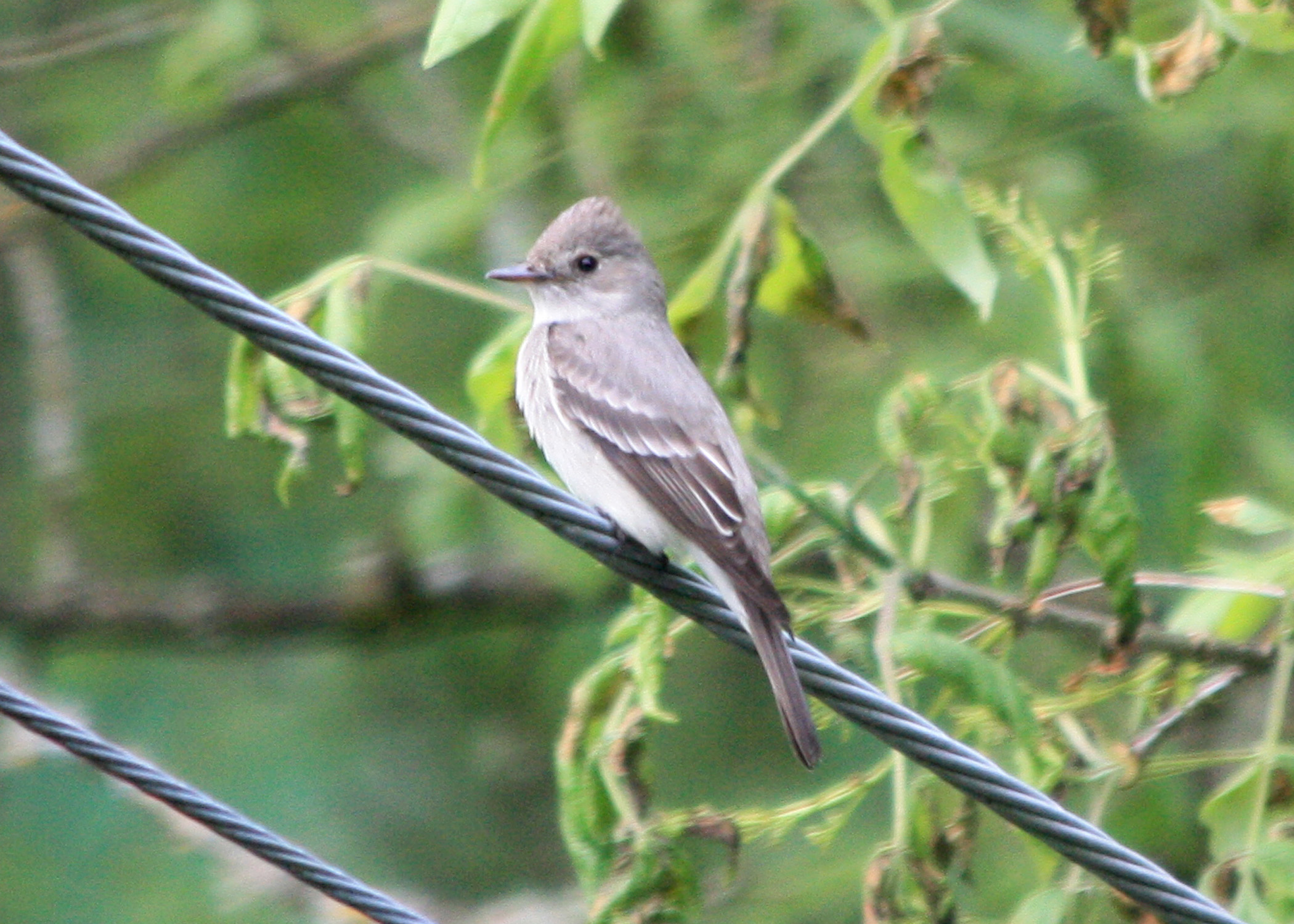 Photo by Kathy Munsel, Oregon Department of Fish and Wildlife- Olive-sided Flycatcher Contopus cooperi The Olive-sided Flycatcher is one of the most recognizable breeding birds of Oregon's conifer forests with its resounding, three-syllable whistle song quick, three beers. It is a relatively large, somewhat bulky, large headed, short-necked flycatcher that perches erect and motionless at the top of a tall tree or snag except when singing or darting out to capture flying insects. The overall olive-gray plumage is generally nondescript except for a whitish stripe down the breast and belly which gives the impression of an unbuttoned vest, and white patches between the wings and lower back. This flycatcher breeds in low densities throughout conifer forests in Oregon from near sea level along the coast to the timberline in the Cascades and Blue Mountains.